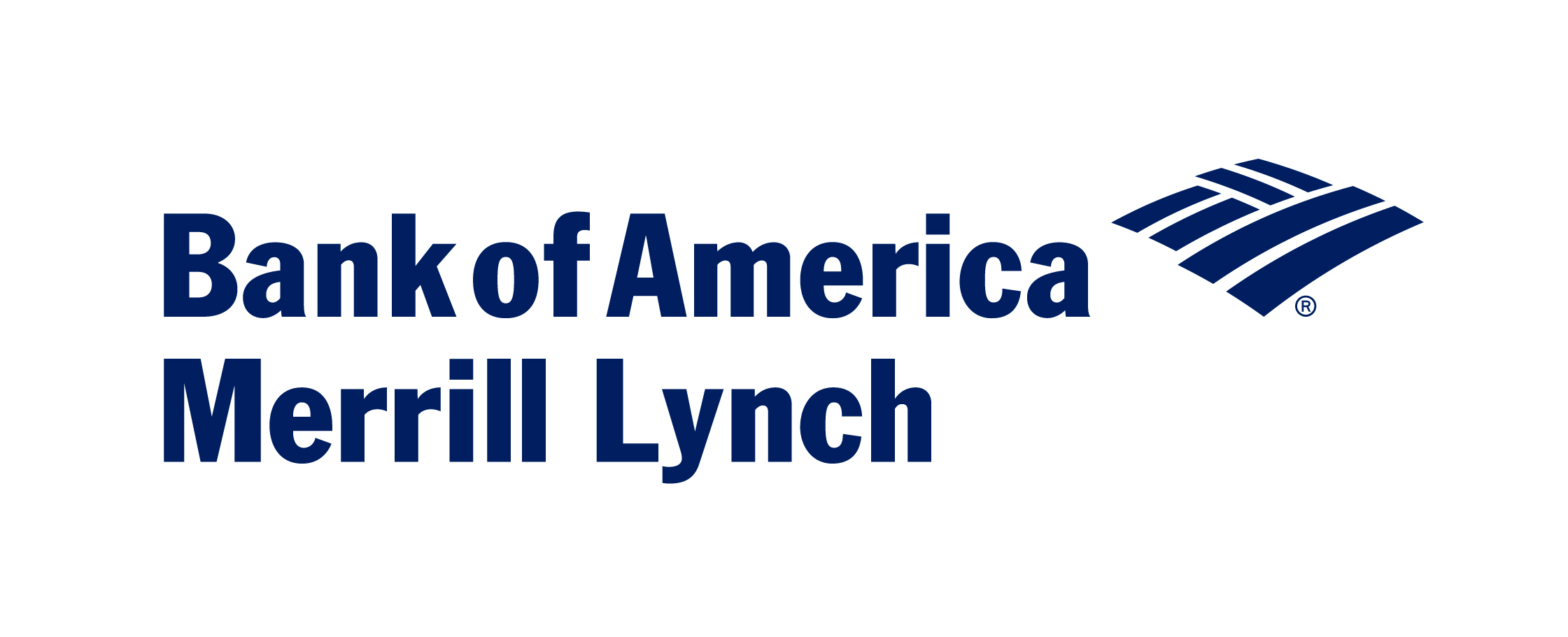 Bank of America Merrill Lynch Logo (2009-2019)